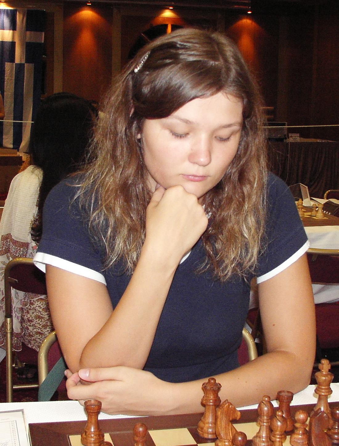 WGM Laura Rogule Latvia, Acropolis 2006